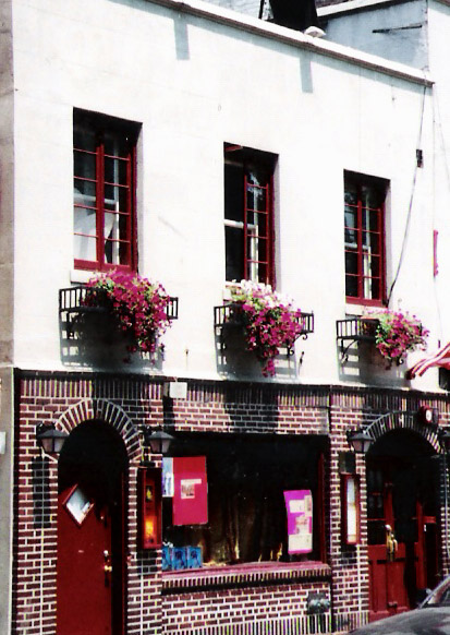 Stonewall Inn, Christopher Street, New York City, with flowers